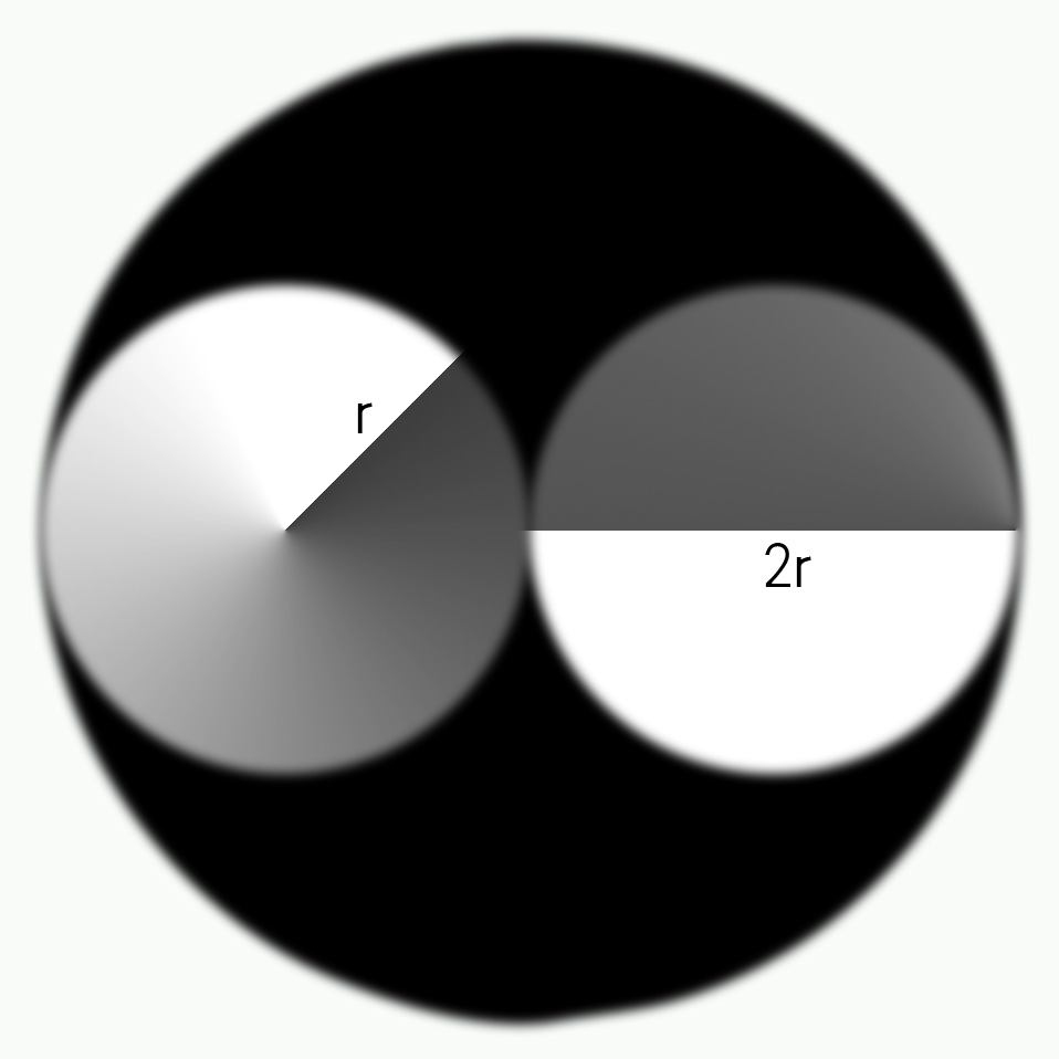 Summary 一个分子对的排斥体积。 许可协议 This work has been released into the public domain by its author, PhiLiP. This applies worldwide. In some countries this may not be legally possible; if so: PhiLiP grants anyone the right to use this work for any purpose, without any conditions, unless such conditions are required by law. 重新制图。